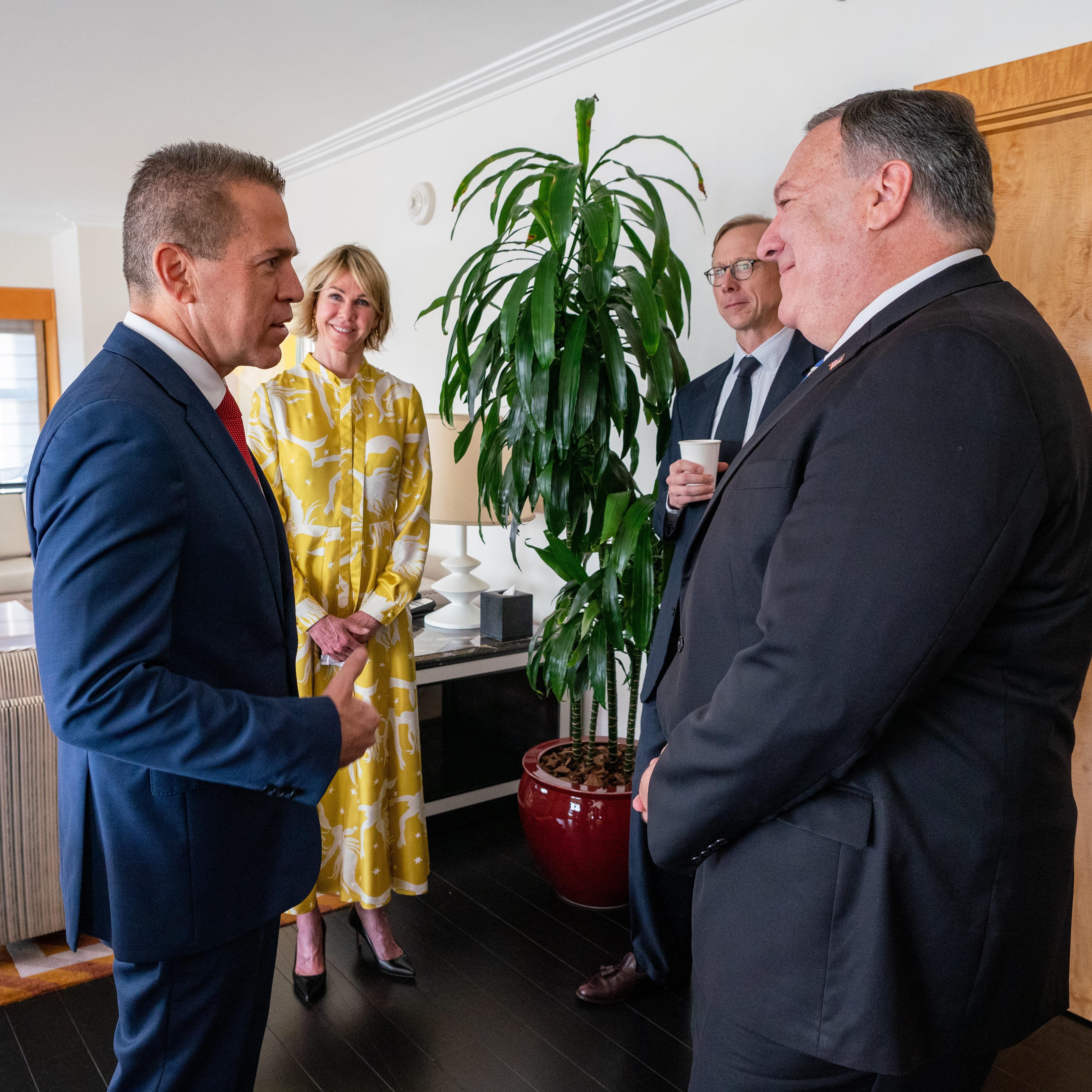 Secretary of State Michael R. Pompeo meets with Israeli Permanent Representative to the United Nations Gilad Erdan, in New York City, New York, on August 21, 2020. [State Department photo by Ron Przysucha/ Public Domain]